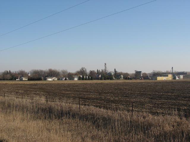 Sherman, South Dakota, USA. Photo taken about 1/4 mile northwest of town.